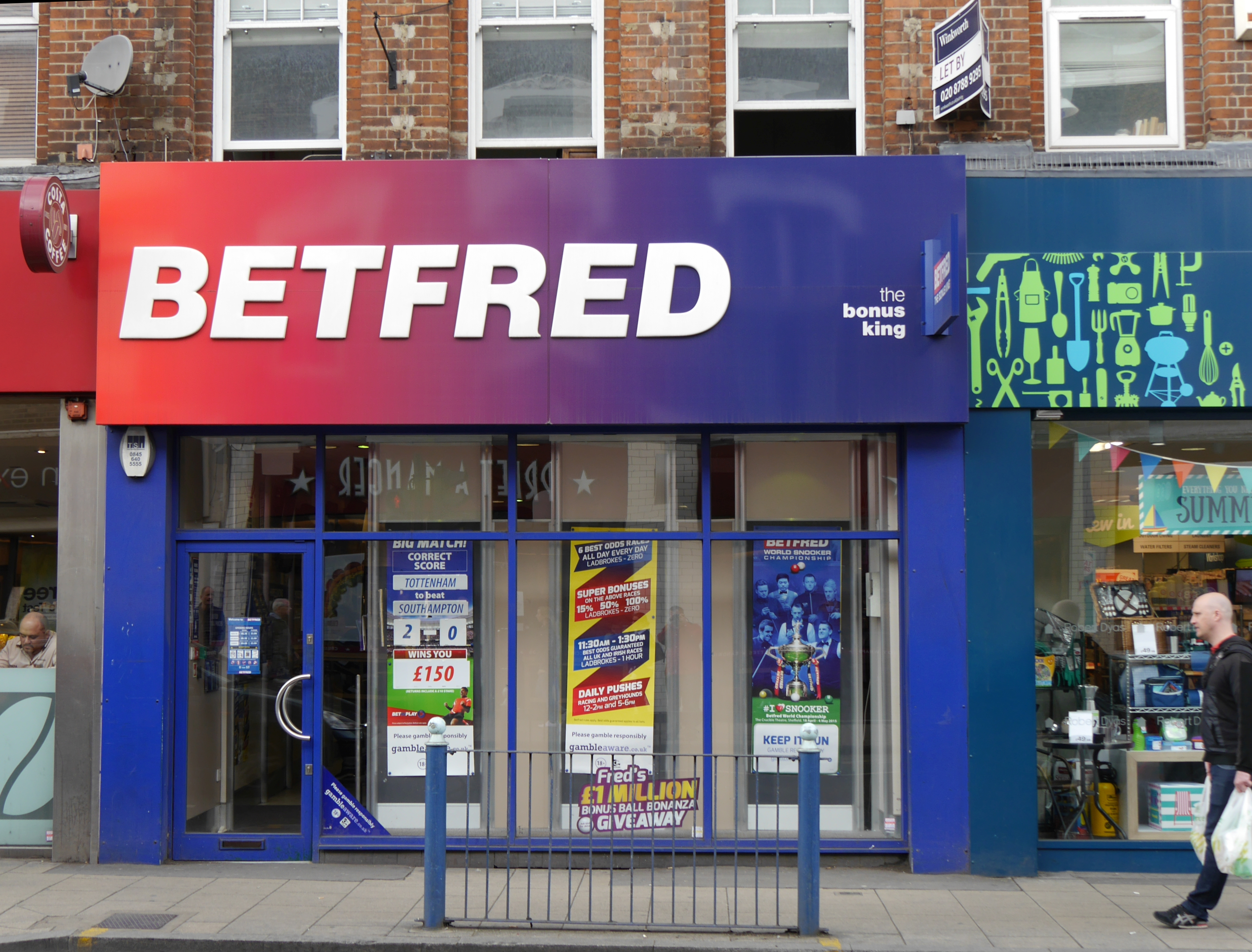 Betfred, 130 Putney High Street, Putney, London SW15 1RG